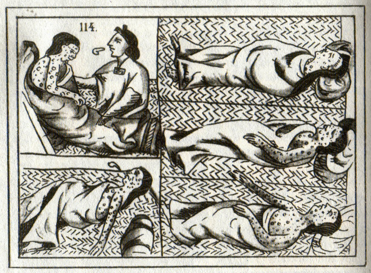 16th century Aztec drawing of smallpox victims